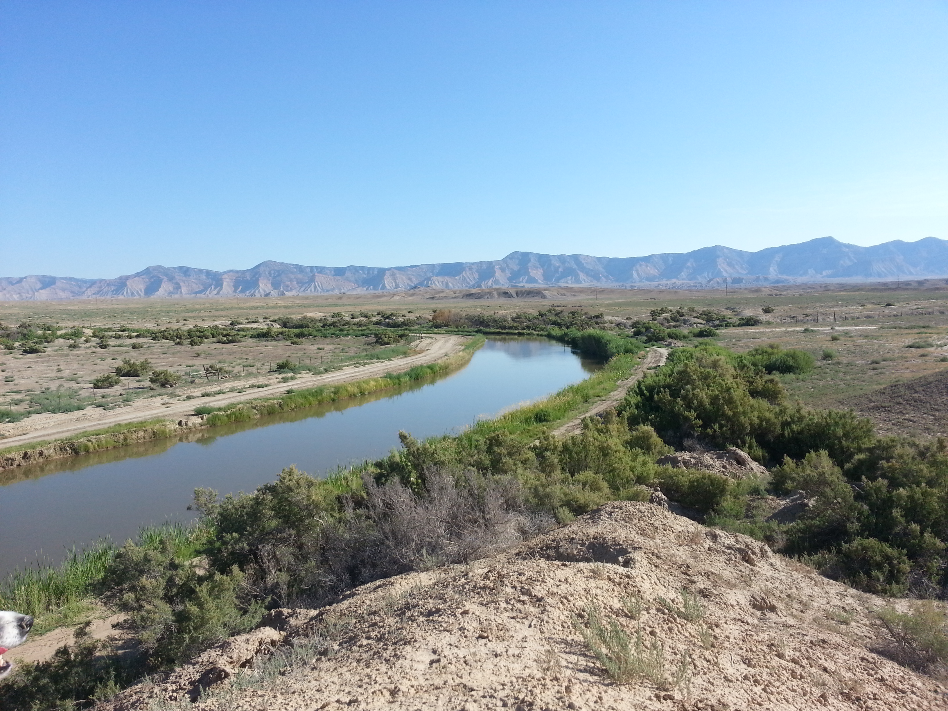 Photo of the U.S. Bureau of Reclamation's Government Highline Canal north of Grand Junction, Colorado (2013)